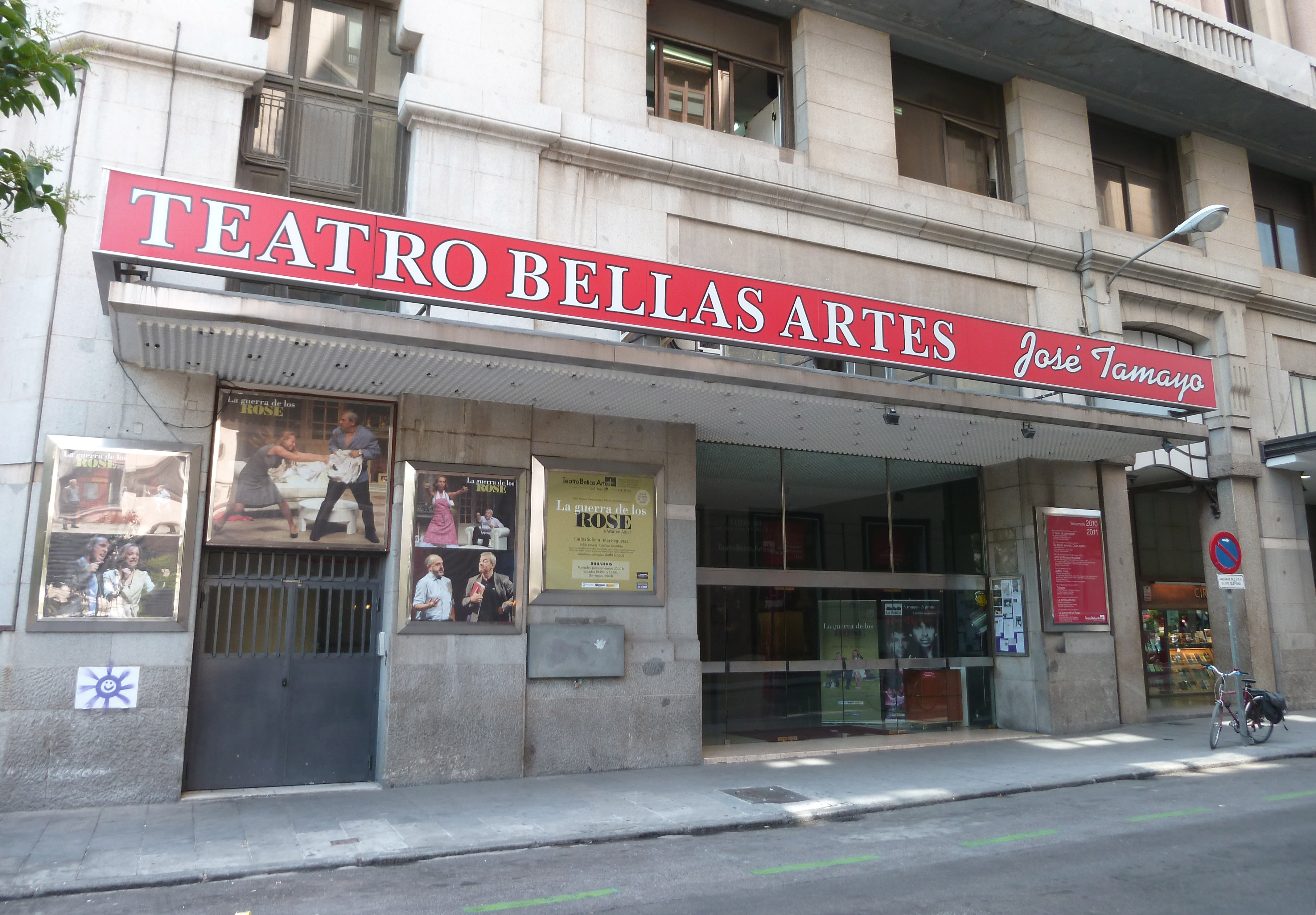 Façade of Teatro Bellas Artes (a theater) in Madrid (Spain).